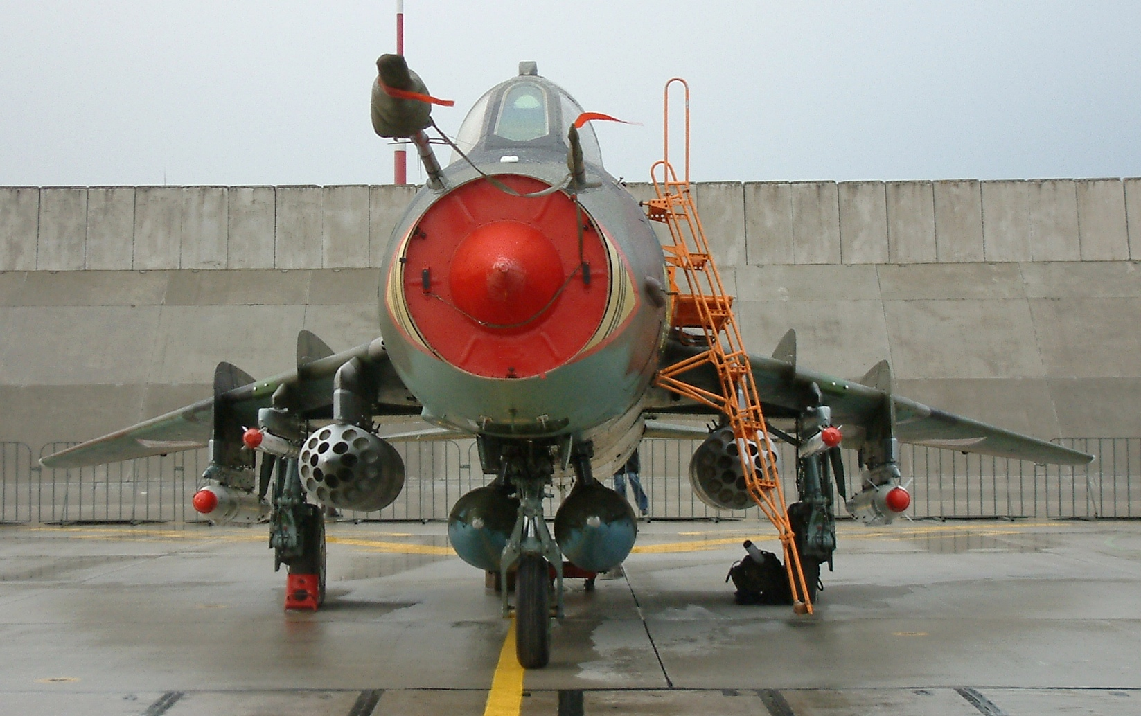 Su-22M4K (Su-17M4K) #9409 of Polish Air Force with markings of 7th Tactical Sqd., 31st. Air Base Poznań-Krzesiny